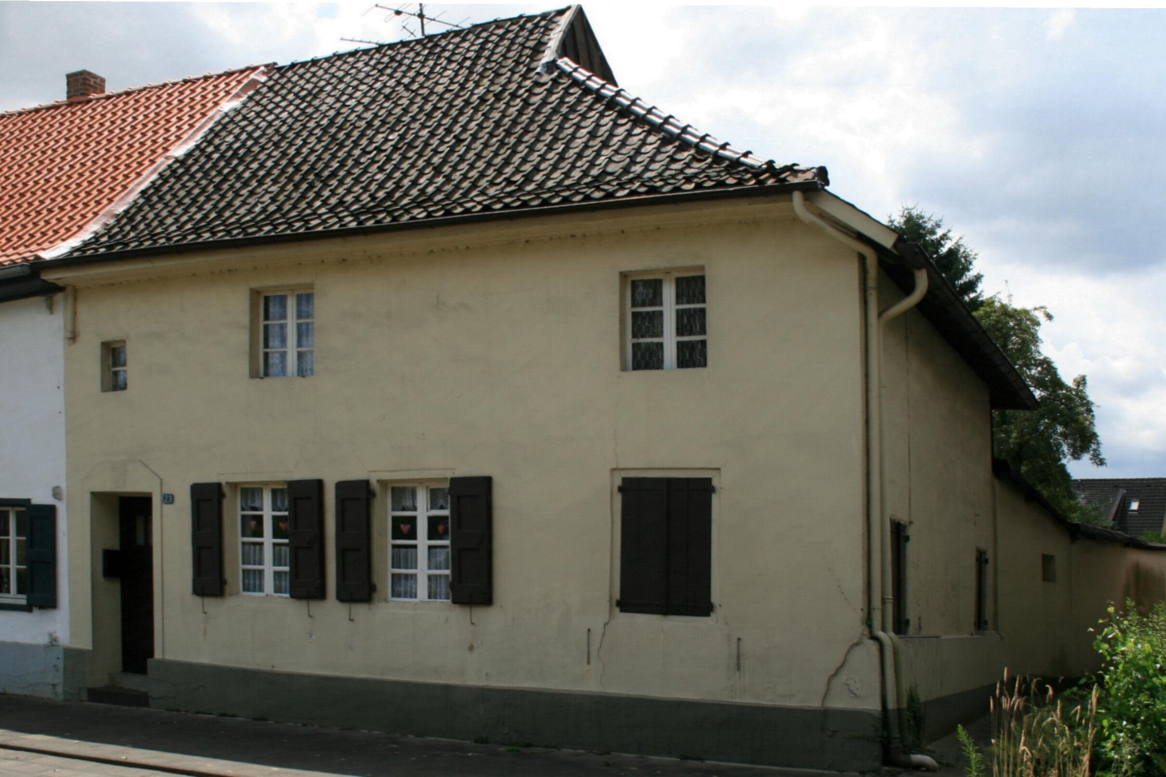 Cultural heritage monument No. K 031a in Mönchengladbach